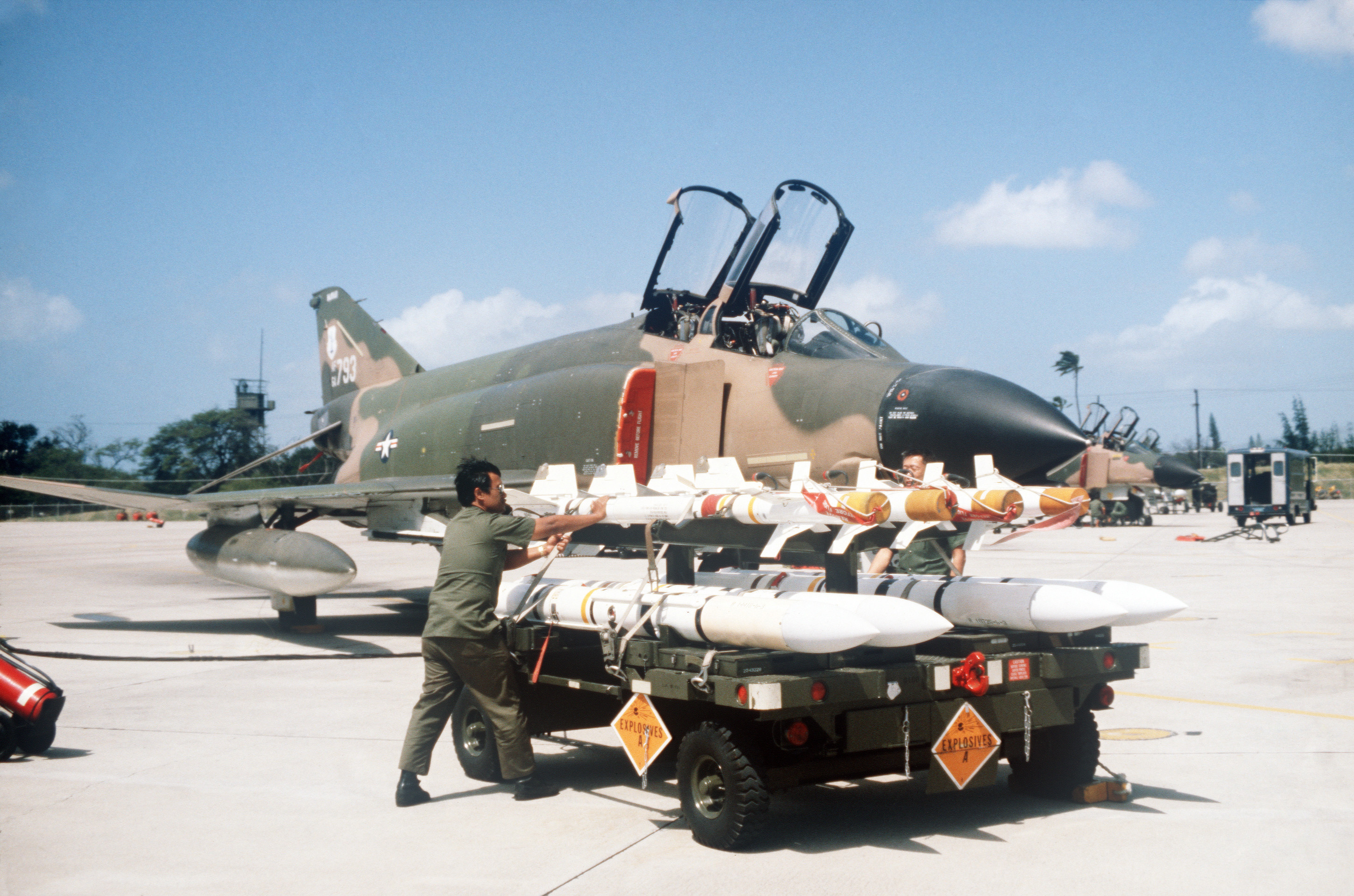 Technicians prepare to load AIM-9P Sidewinder and AIM-7E Sparrow missiles onto an McDonnell F-4C-23-MC Phantom II aircraft (s/n 64-0793) of the 199th Tactical Fighter Squadron, 154th Composite Group, Hawaii Air National Guard, at Hickam Air Force Base, Hawaii (USA) on 21 March 1980.